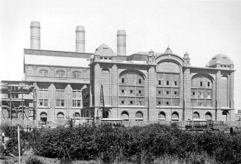 Buenos Aires Compañía Alemana Transatlántica de Electricidad CATE - Usina Dock Sud. Ca 1910